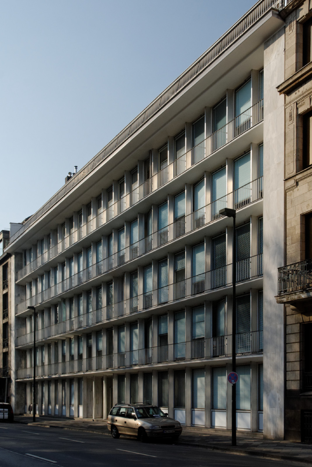 House Jägerhofstraße 29 in Düsseldorf-Pempelfort, Germany